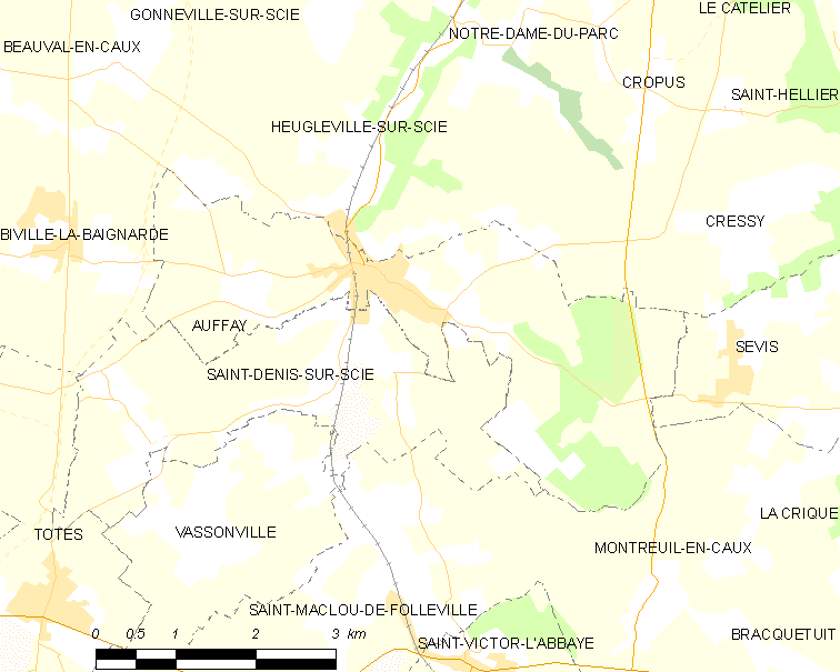 Map of French municipality Auffay